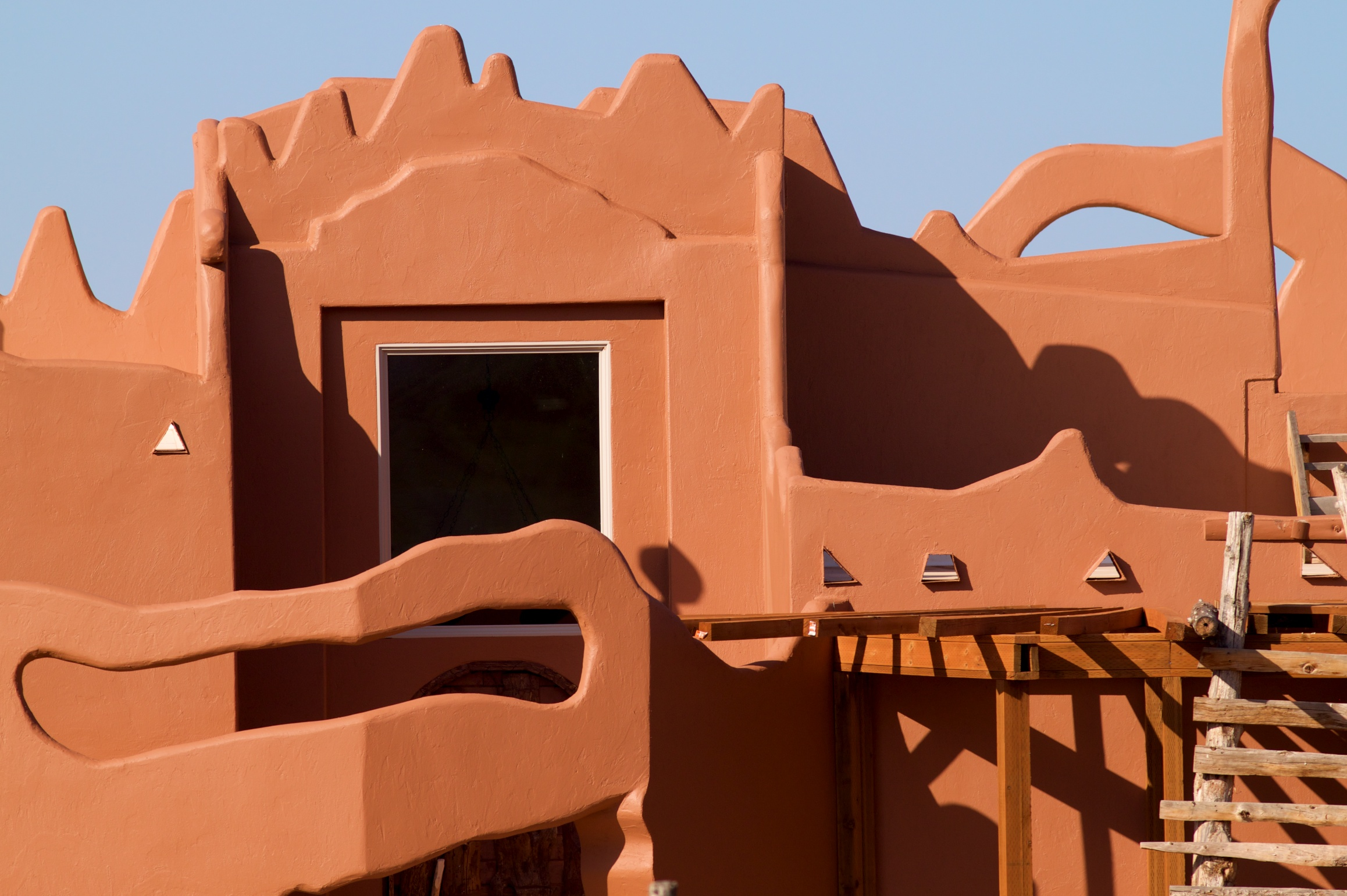 Spotted this unusual style somewhere near Apple Valley, Utah